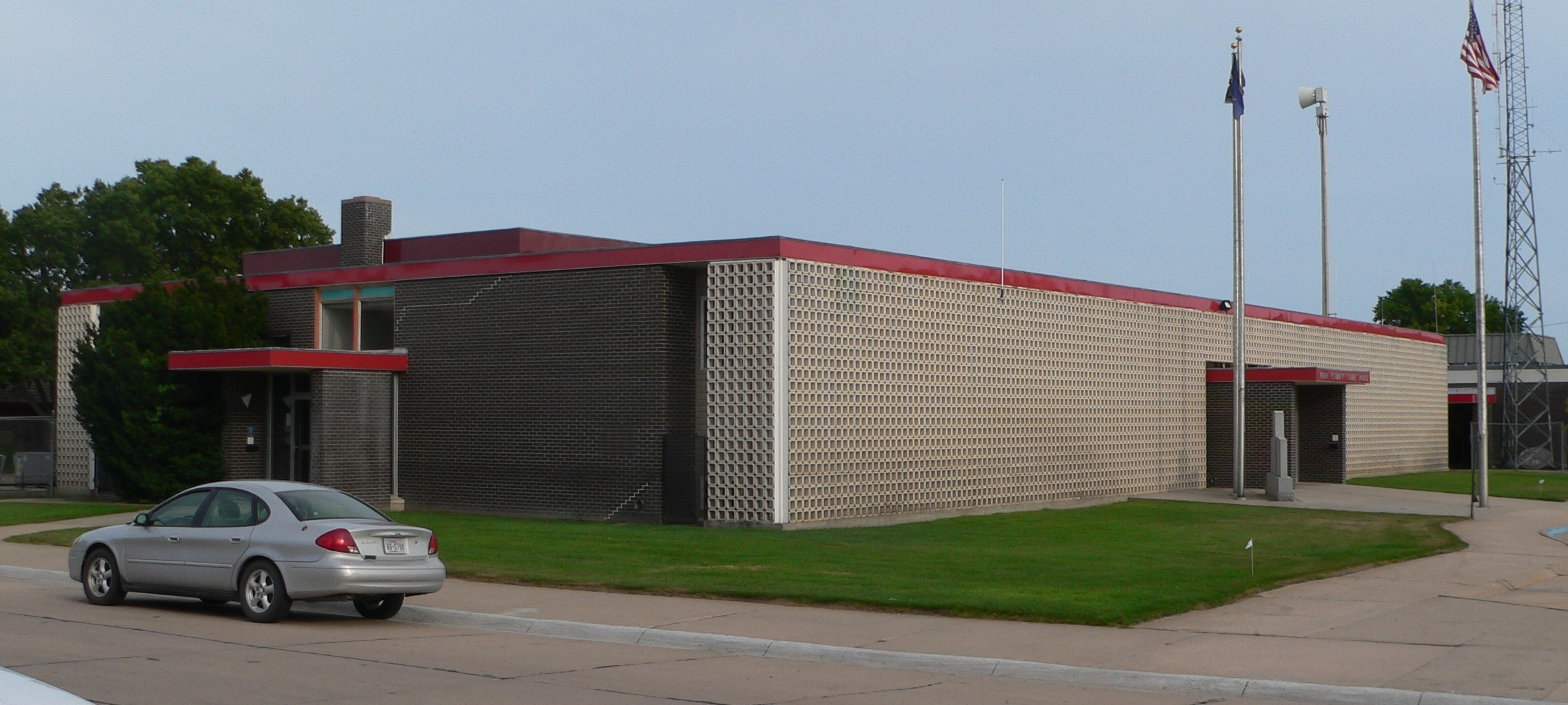 Keith County courthouse in Ogallala, Nebraska; seen from the northwest.